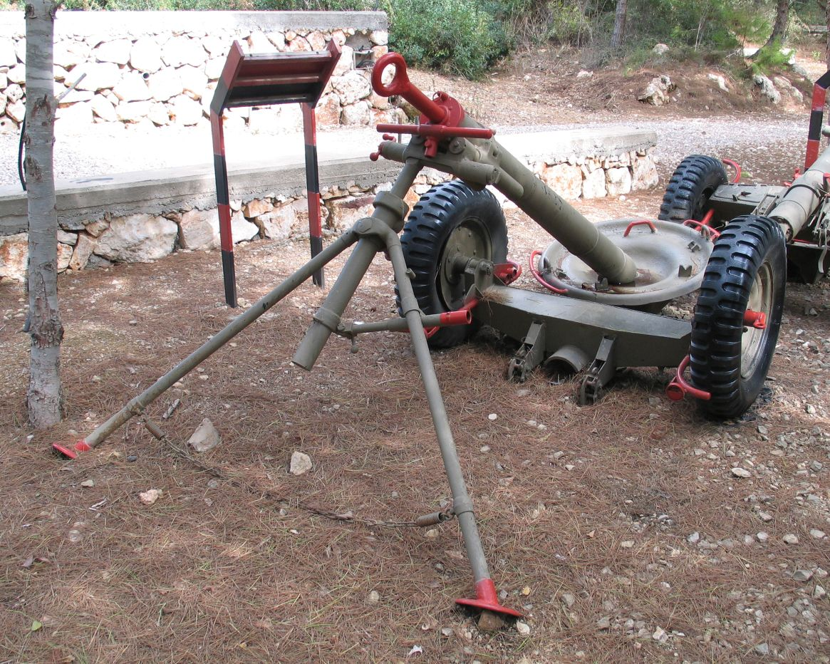 Description: 120 mm mortar in Beyt ha-Totchan, Zichron Yaakov, Israel. 2005. Source: Photo by me, User:Bukvoed.